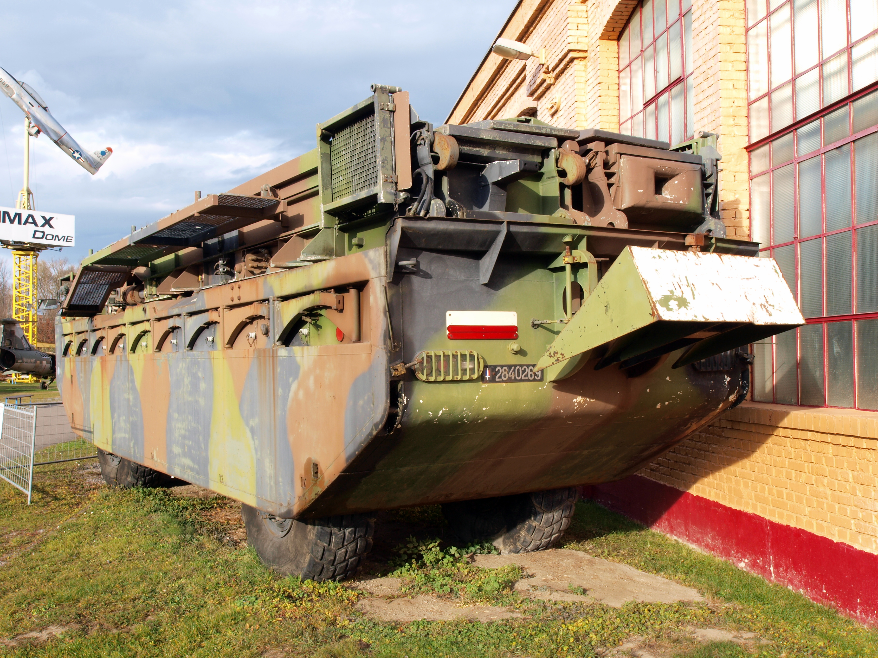 Photographed at the Technik Museum Speyer, Germany.